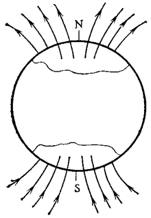 Image of magnetic gravity